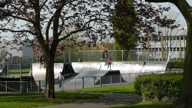 Skateboarding in Wandle Park This facility, in one corner of Wandle Park, has proved very popular.